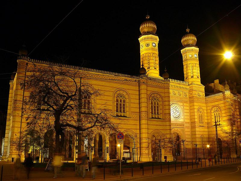 The Dohány Street Synagogue in Budapest